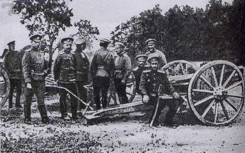 Colonel Eristov, Rotmistr Wrangel and other officers of the Russian army at a captured German cannon during the battle of Kauschen in 1914